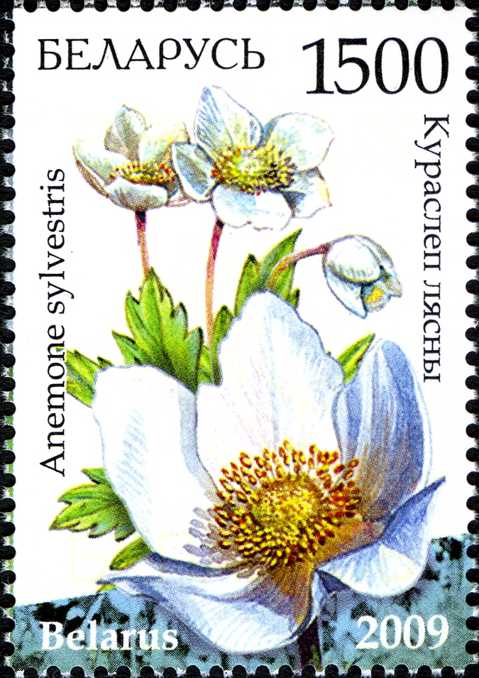 Stamp of Belarus